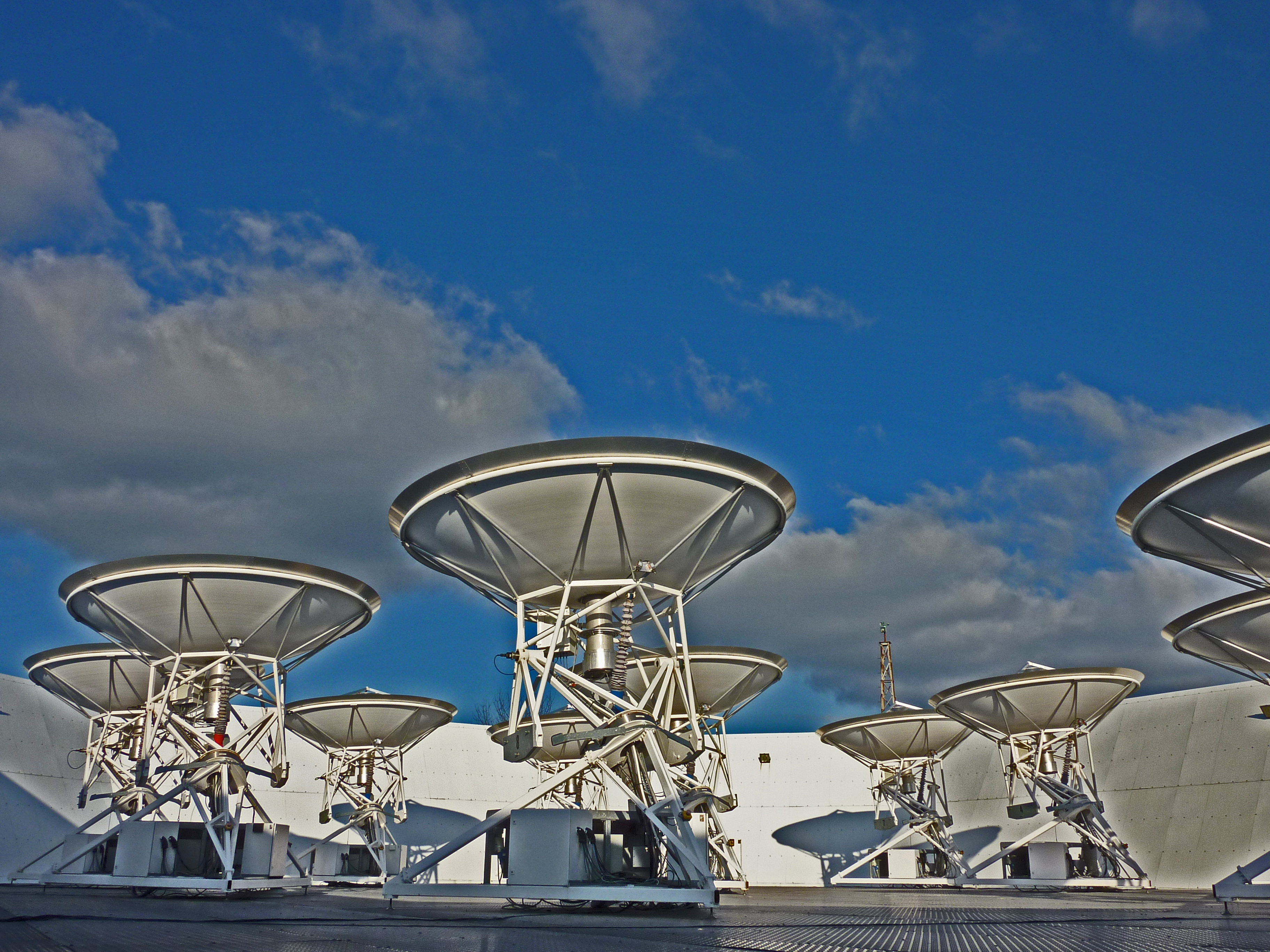 The photograph shows the antennas of the Arcminute Microkelvin Imager Small Array, a aperture synthesis radio telescope located at the Mullard Radio Astronomy Observatory near Cambridge, U.K.